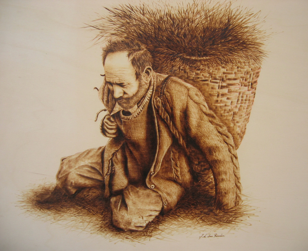 Farmer carrying a basket. Pyrography on wood panel.